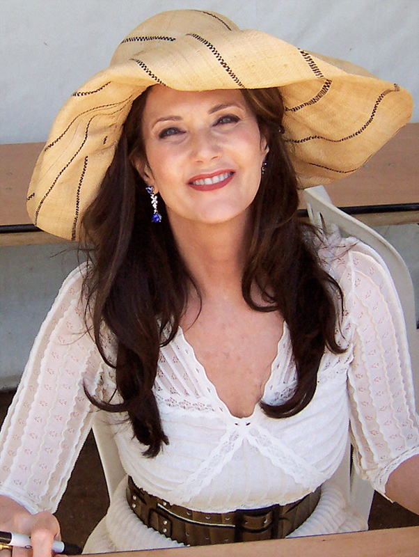 Lynda Carter in 2011 at Phoenix Pride